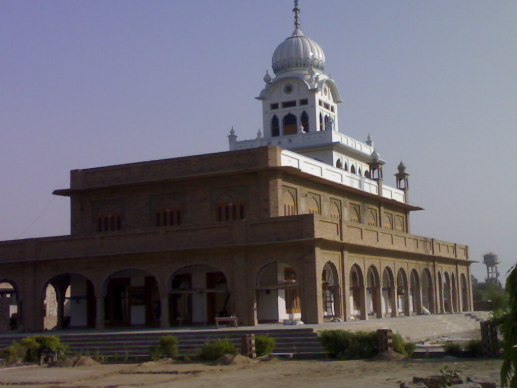 It is created by me( User:Shemaroo who is Shivender Singh.It is photo of the Guruduara at New Mandi Gharsana.It is one of the most beautiful building of this area. Shemaroo (talk) 11:06, 22 October 2010 (UTC)